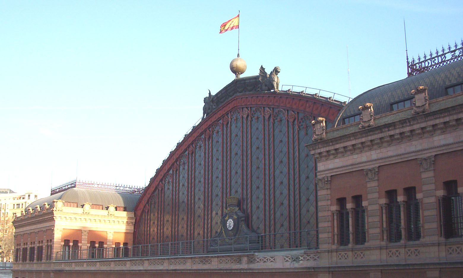 Partial view of the façade of the Atocha railway station in Madrid (Spain). Building was projected in 1888 by architect Alberto de Palacio y Elissague (1856–1936) and engineer Henry Saint James, and built from 1890 to 1892.